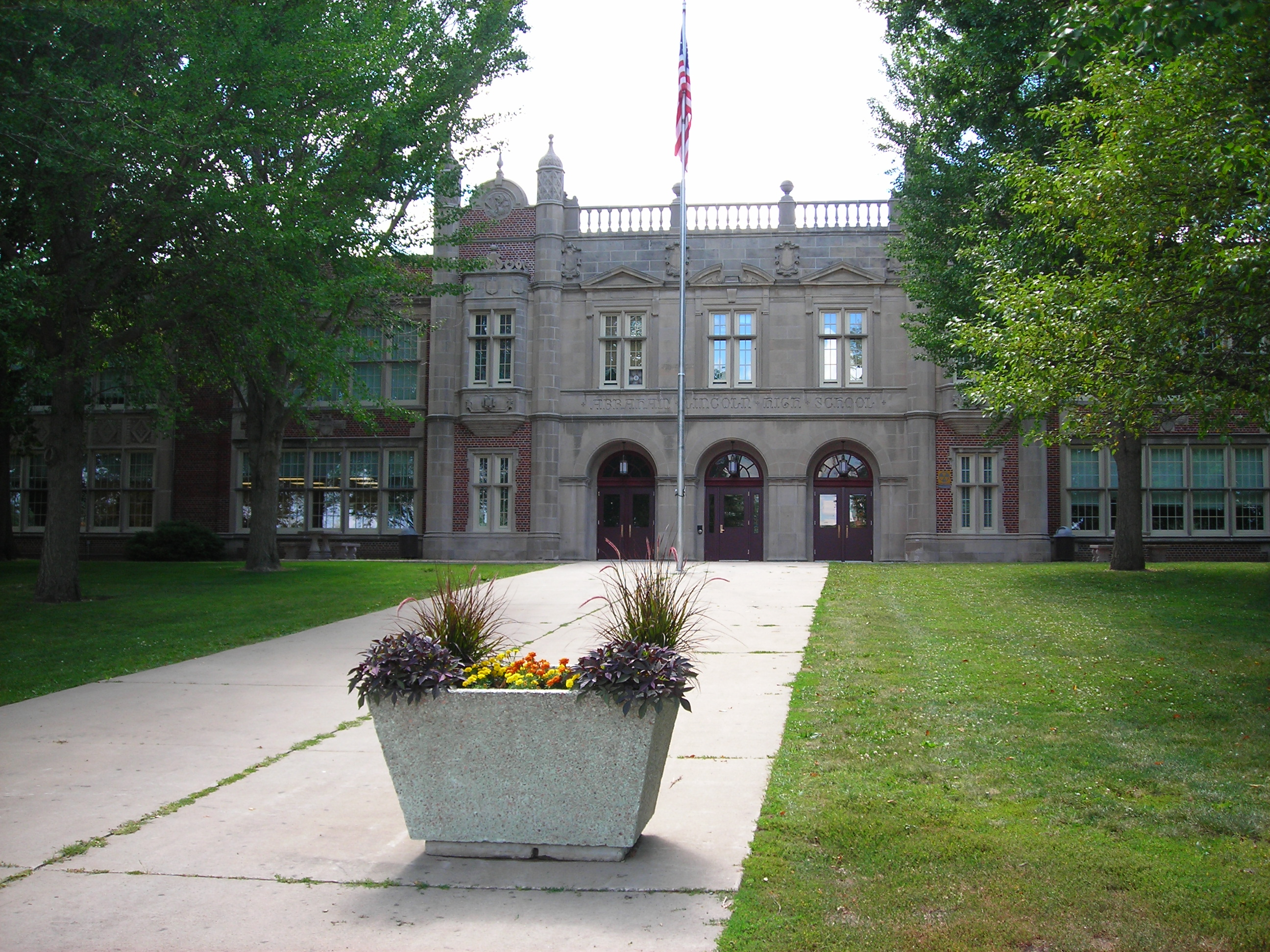 Taken Wednesday, July 11, 2007 at 20:18 UTC by Ted Taber. Multi-licensed under GFDL and CC-SA 3.0 license, attribution required.